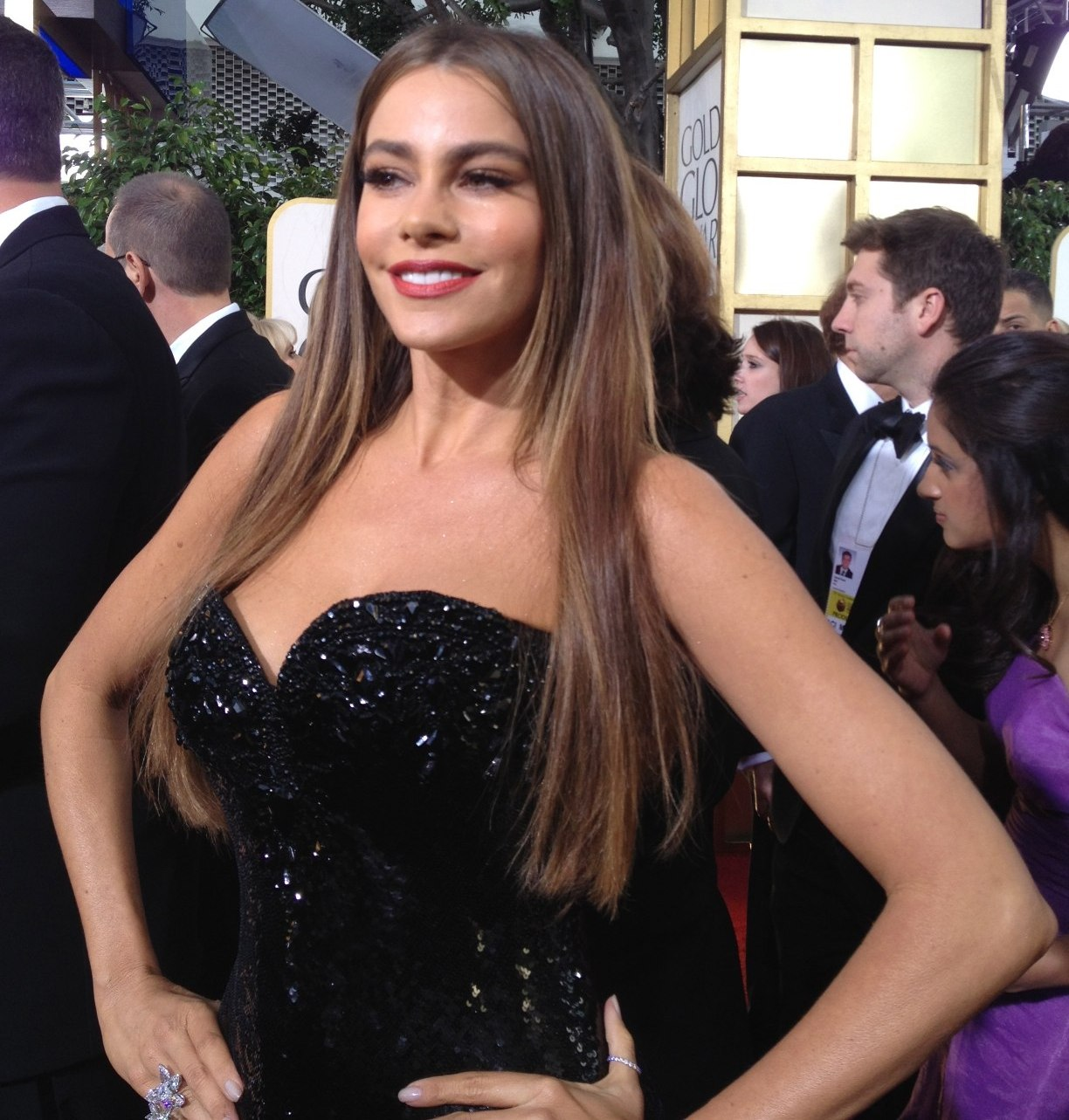 Sofía Vergara at the Golden Globes 2013.